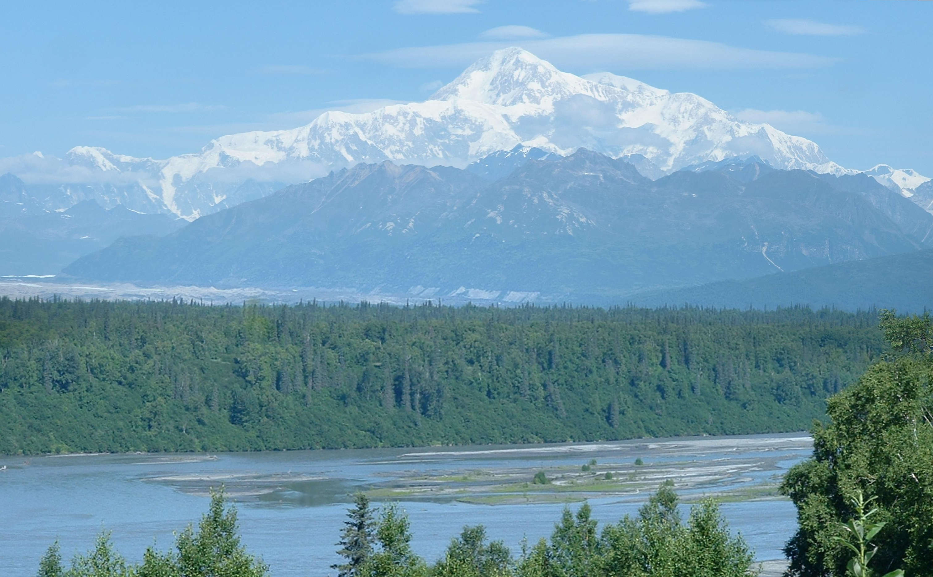 Cropped Version of the McKinleyPan.jpg image.